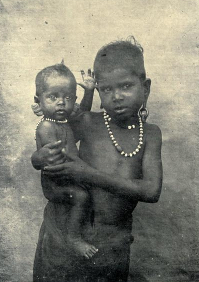 Kallan children with Ears dilated